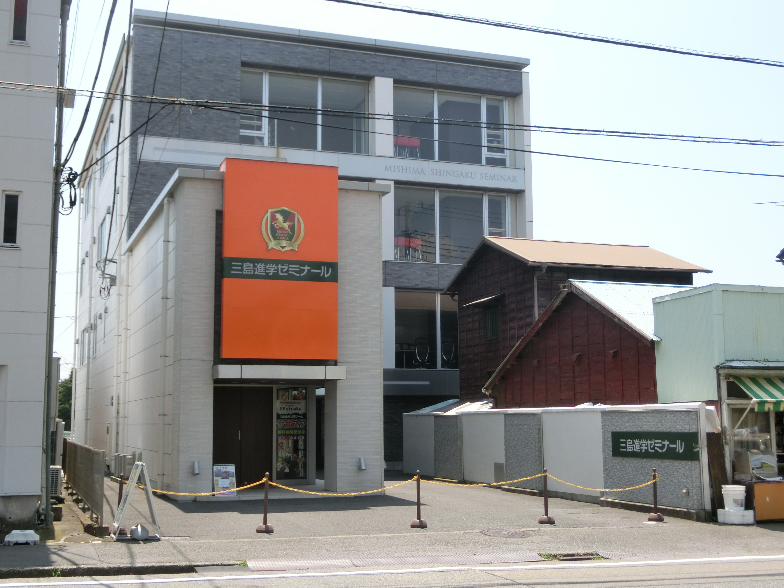 Mishima Shingaku Seminar Mishima General Headquarters School